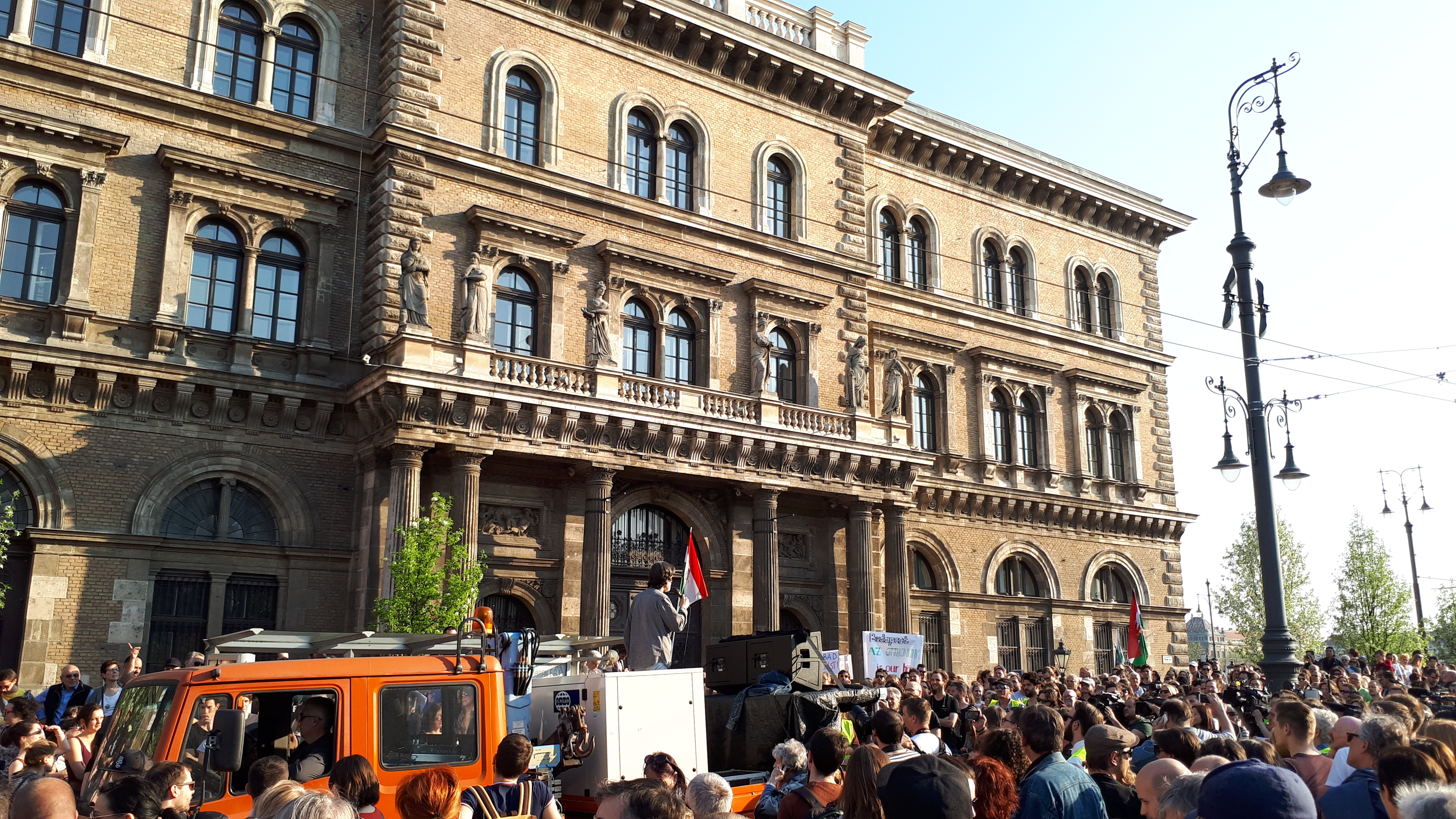 Protest against the legislation threatening Central European University, at 2017-04-02